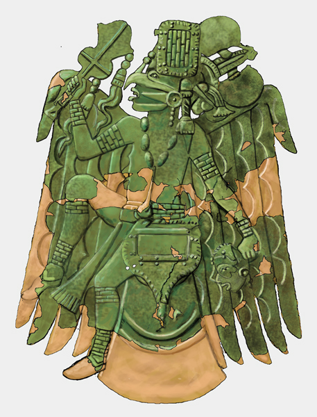 Rogan Plate 1 (Catalogue No. A91117, Department of Anthropology, NMNH, Smithsonian. One of two Mississippian culture "birdman" repoussé copper plate found by John P. Rogan at the Etowah site in Alabama in 1883.